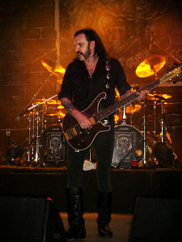 Lemmy, live during "Kiss of Death tour, in 2006